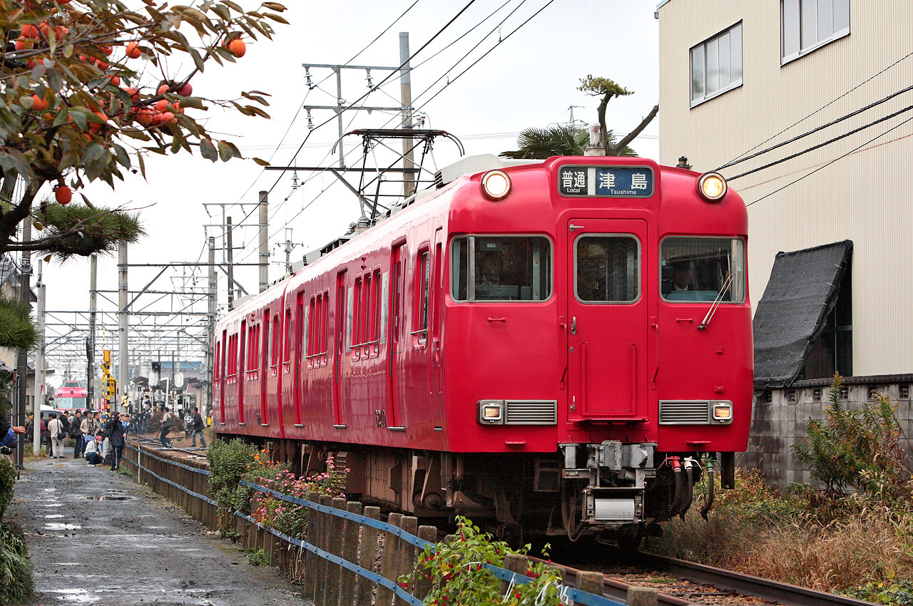 Meitetsu 6000 series EMU ( 6040F at Morikami Sta. )